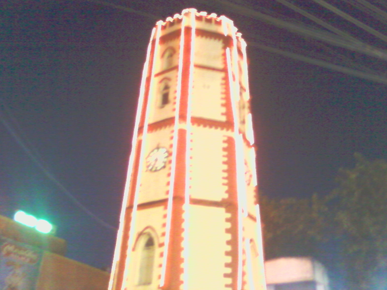 This is a decorated night view of Ganta stambham in the town of Vizianagaram, it is a famous landmark